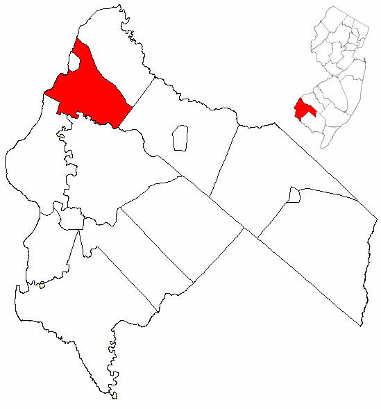 Map of Salem County highlighting Carneys Point Township